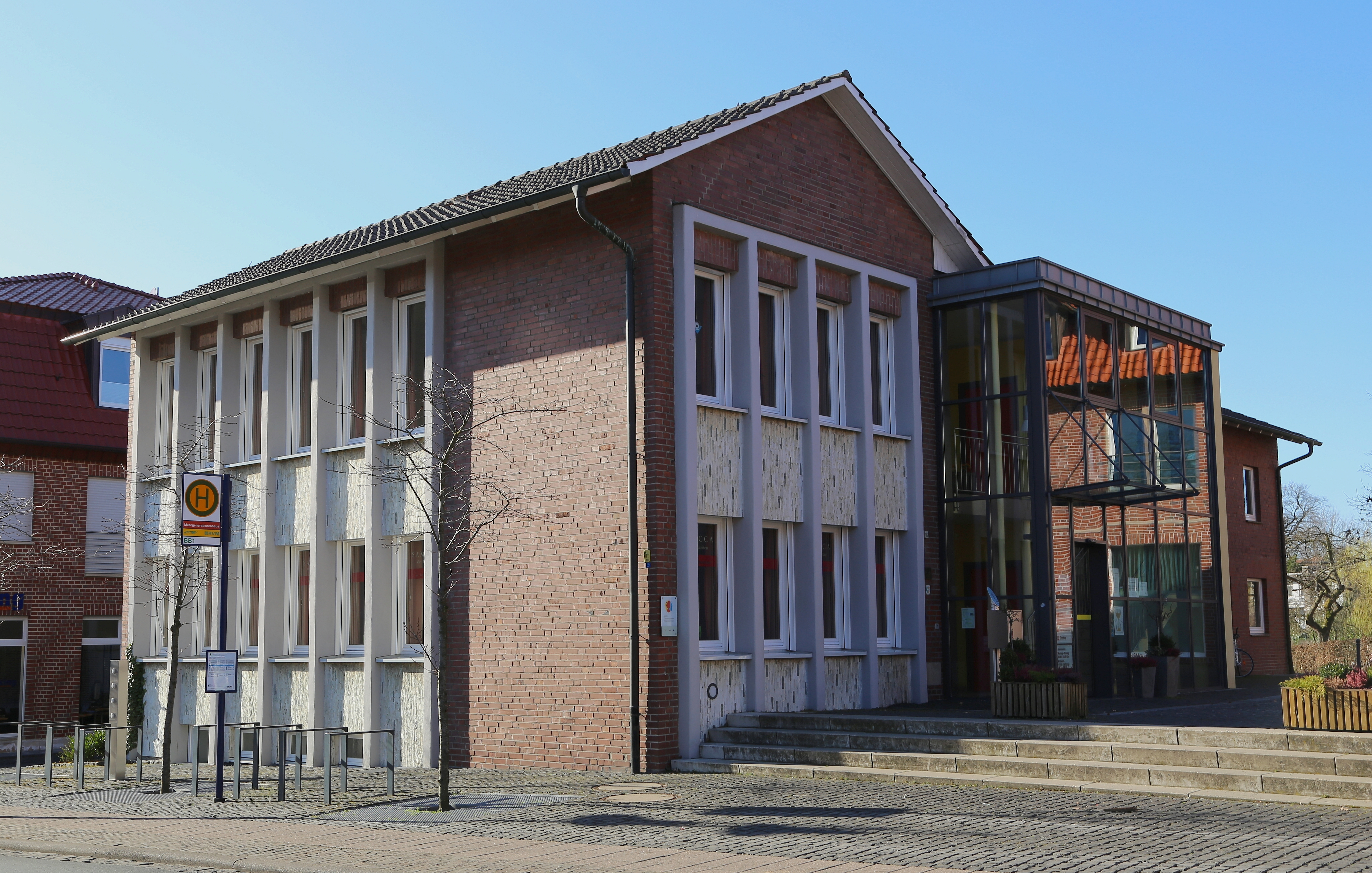 The former town hall of Saerbeck, Kreis Steinfurt, North Rhine-Westphalia, Germany. The building is now used as a so called multi-generation[al] house (Mehrgenerationenhaus). It is a listed cultural heritage monument.